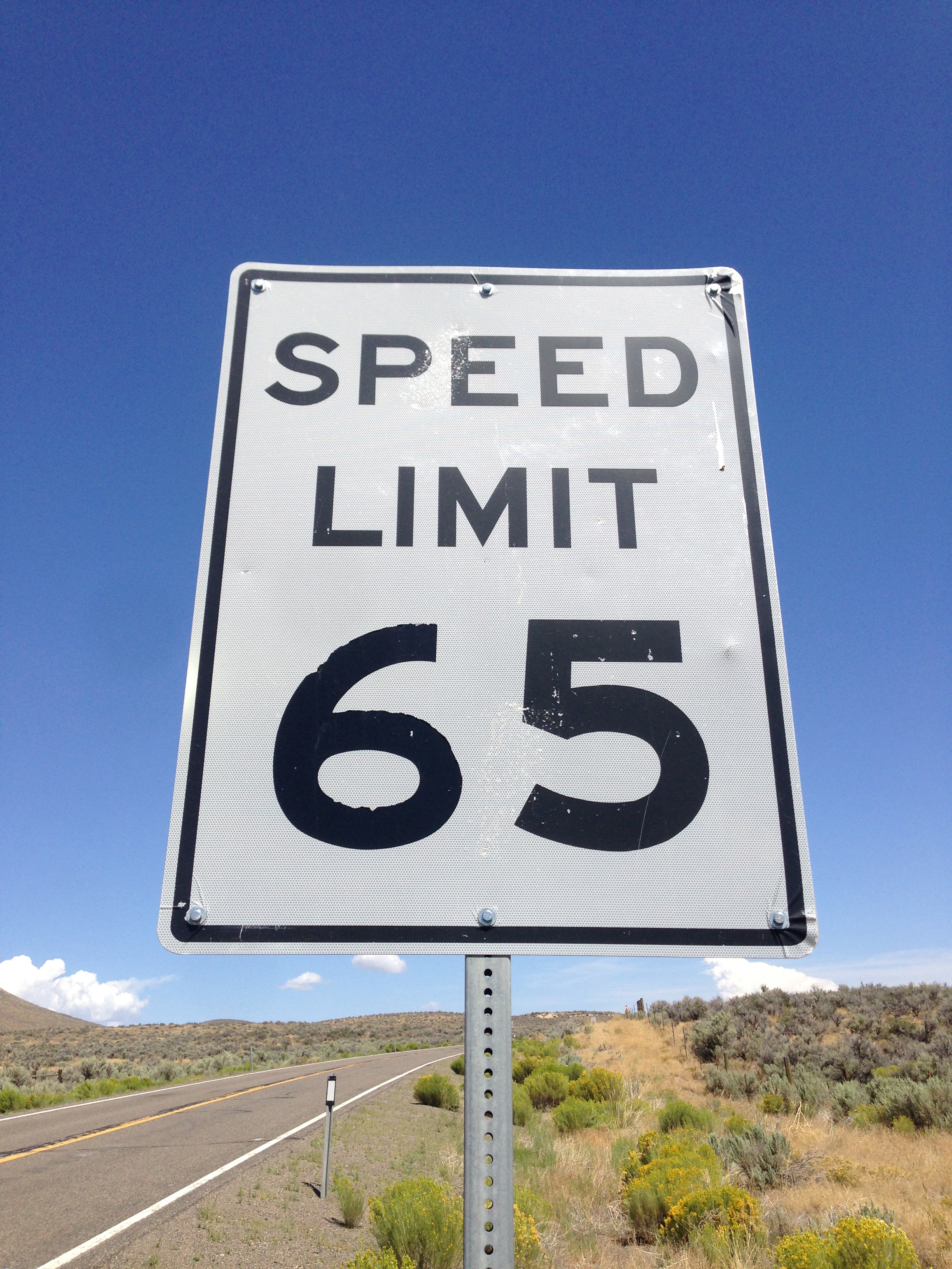 Speed limit 65 miles per hour sign along northbound Nevada State Route 225 (Mountain City Highway) about 10.9 miles north of Nevada State Route 535 (Idaho Street) in Elko County, Nevada